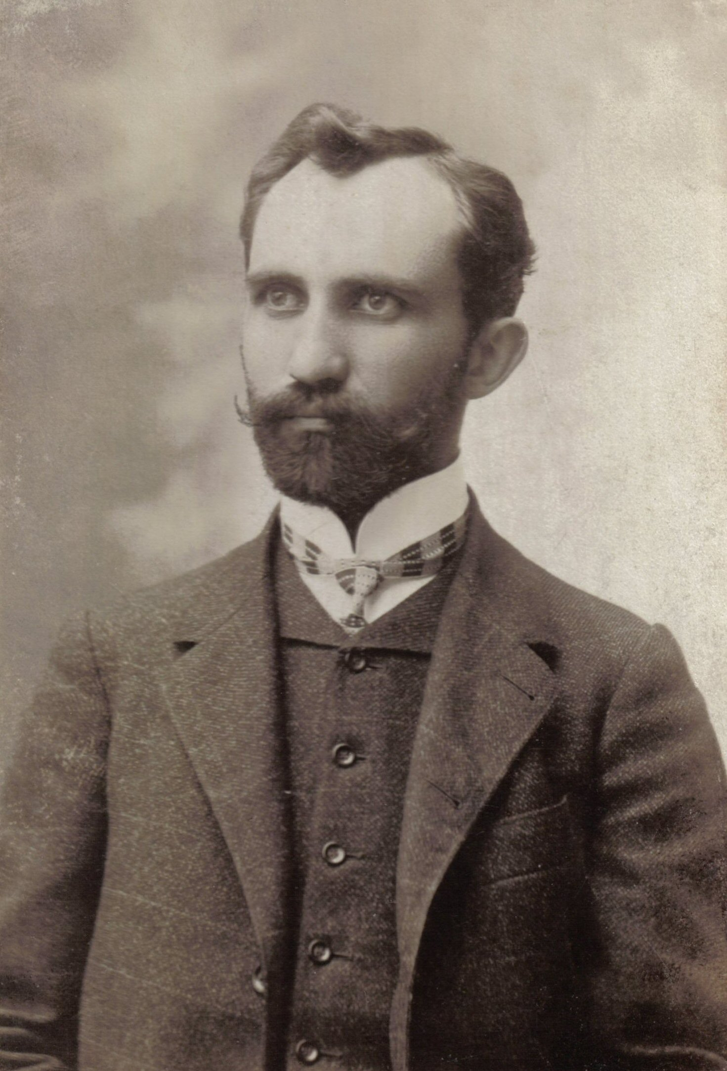 Teofil Sadkowski, PhD, born 1873, lost while Warsaw Uprising 1944. Kandidat nauk, Polish mathematician, specialities: Probability, Stochastic process, Petersburg University, Russia. Before Great War worked for insurance companies. After liberation in 1918 Teofil Sadkowski was owner of [Mens College for Mathematics and Natural Sciences] in Warsaw, Poland. See: Polish Declarations of Admiration and Friendship for the United States. Lost while Warsaw Uprising, 1944 - See:[1]